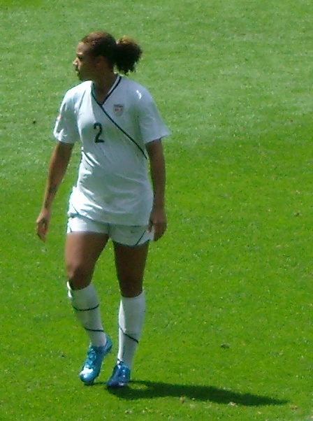 USA-Nigeria at 2010 FIFA U-20 Women's World Cup in Impuls Arena as “FIFA Women's World Cup Stadium Augsburg”: Toni Pressley (2).